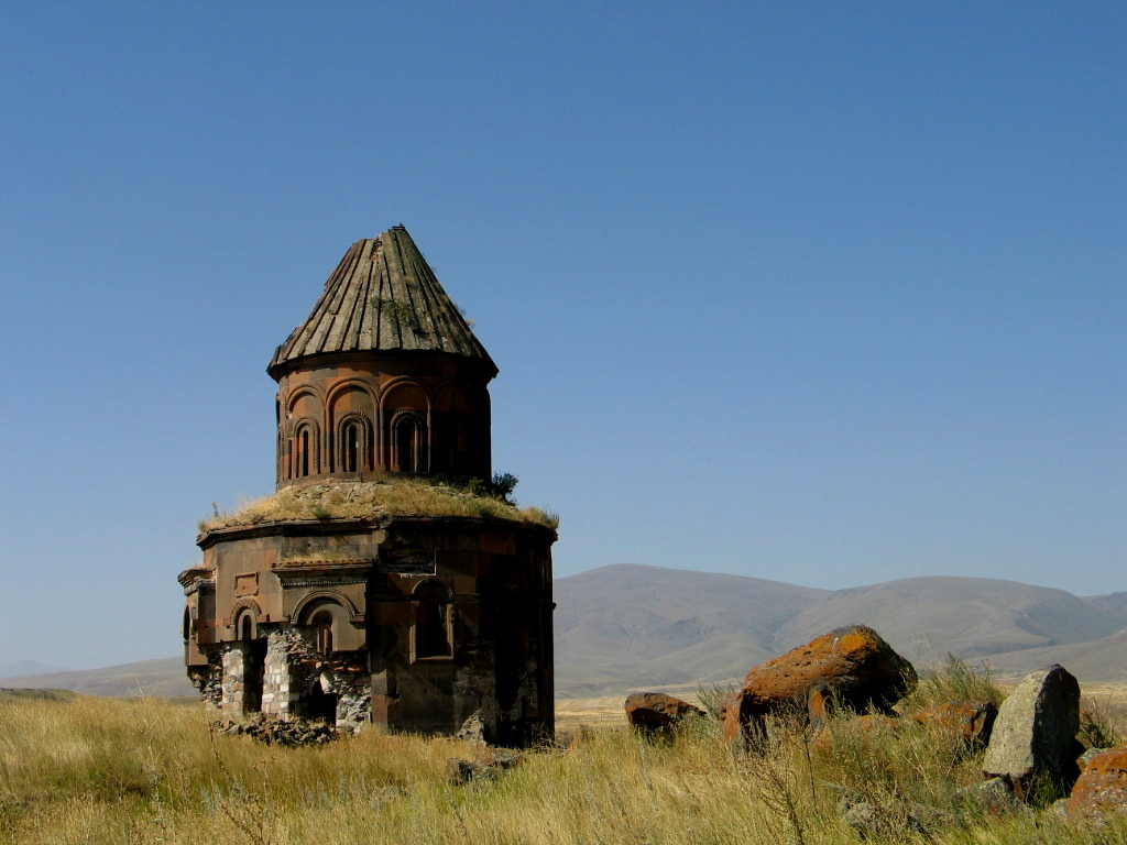 church st. gregorius in ani, turkey